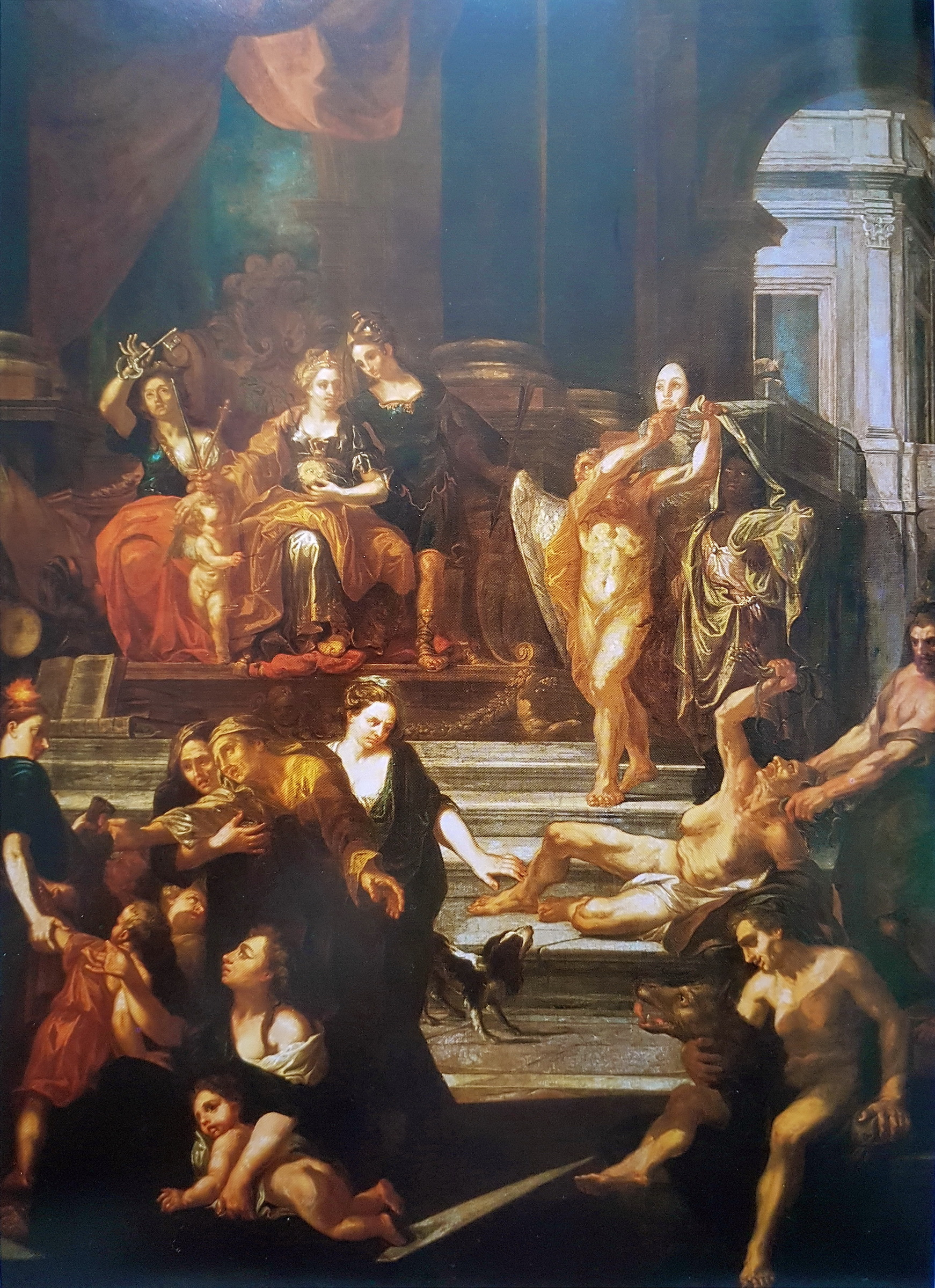 Edmond Plumier, The Double Jurisdiction (1714). Mantle piece in the mayor's office of the town hall of Maastricht, the Netherlands.